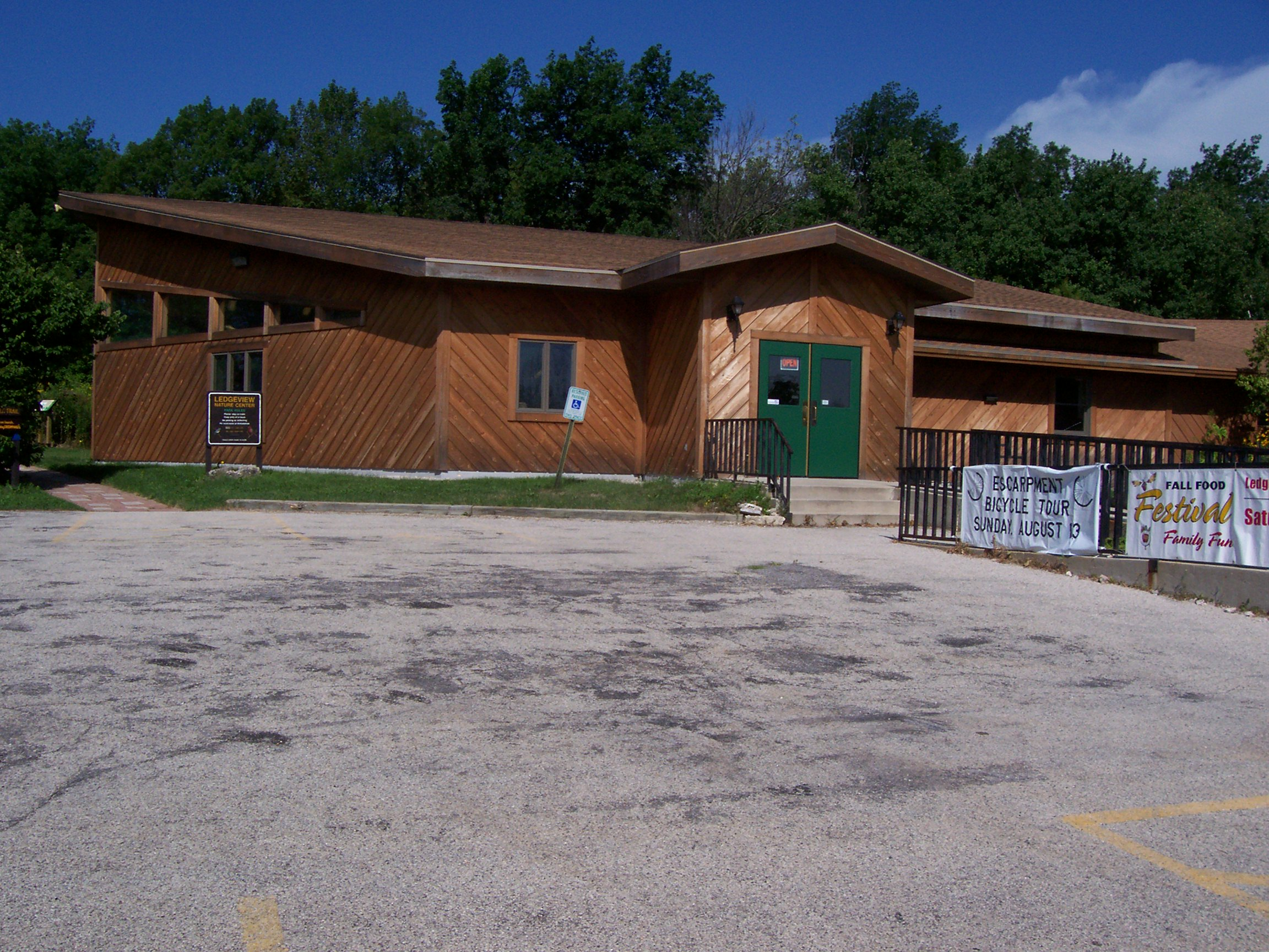 Ledgeview Nature Center, Calumet County, Wisconsin. Two miles south of Chilton. I took this image myself on August 1, 2006.